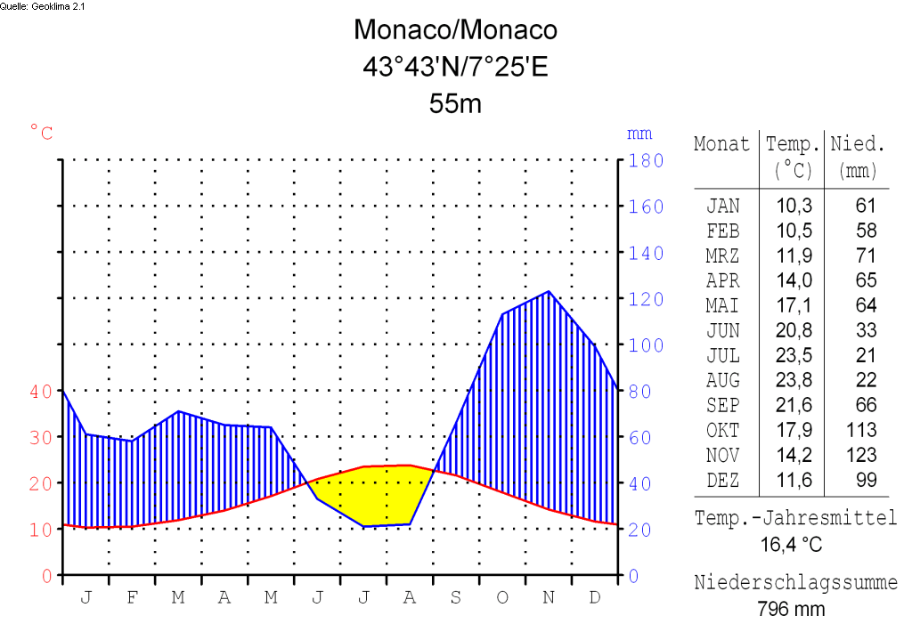 climate chart in the format by Walter and Lieth, metric, °Celsisus and millimeters, made with Geoklima 2.1